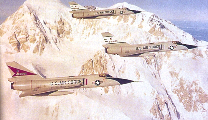 Air Defense Command F-106s Flying Past Denali (formerly Mount McKinley), Alaska